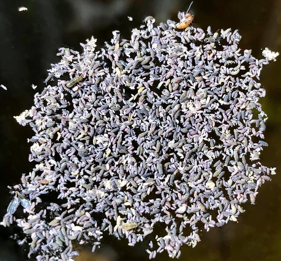 Springtails (Collembola) from Moscow region, Russia